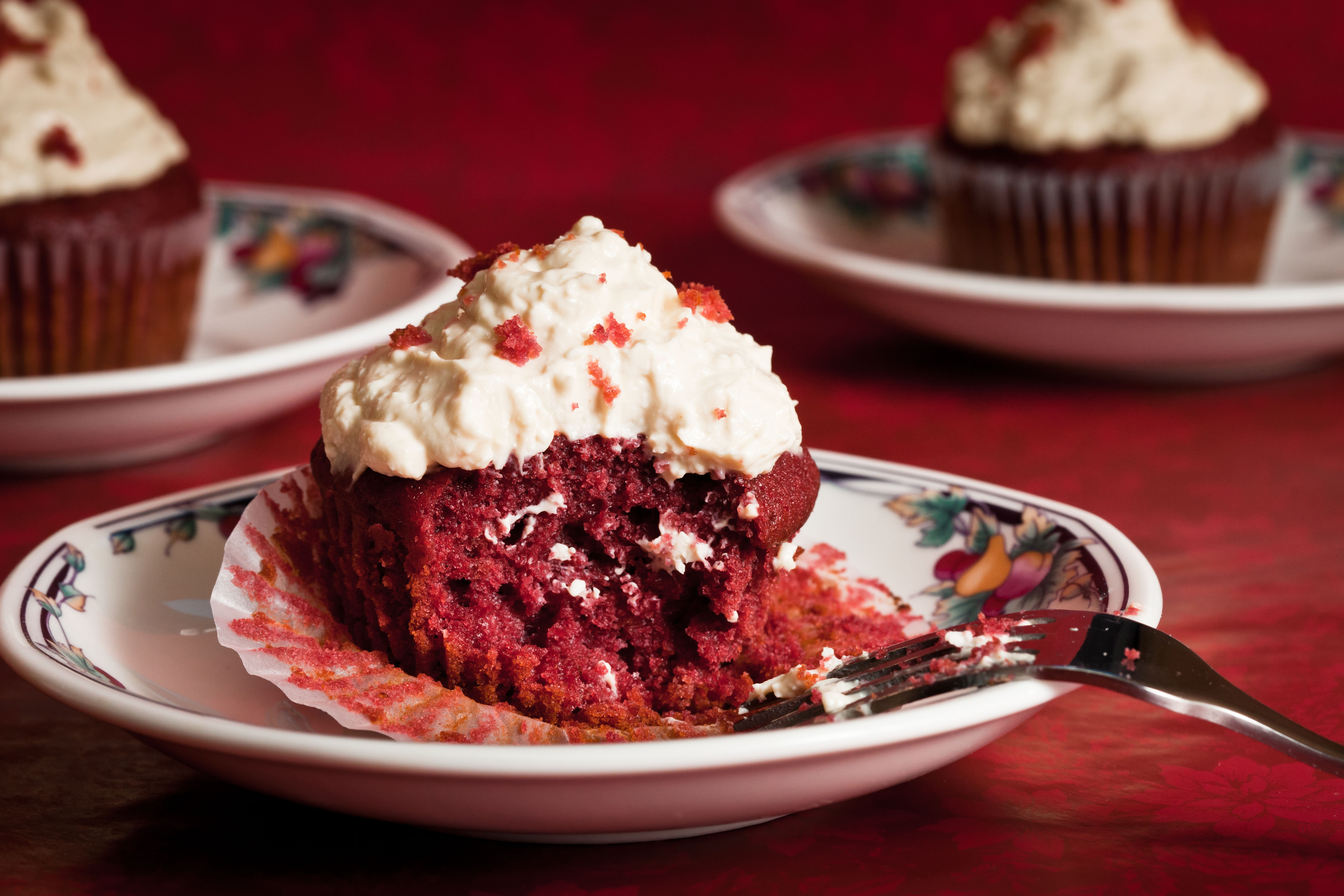 Red velvet cupcakes on a red tablecloth.